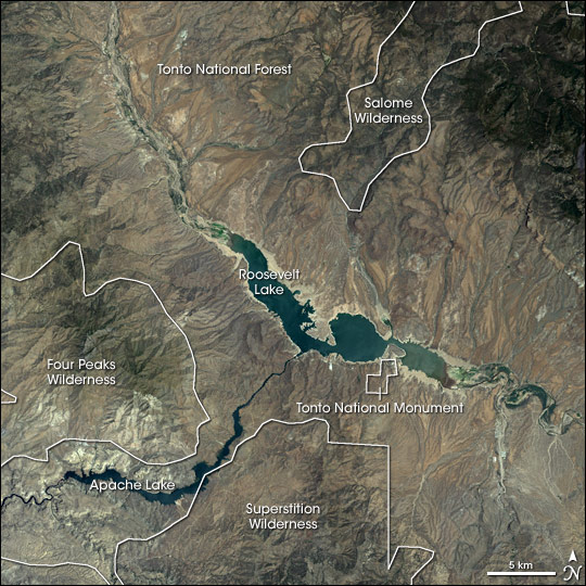 Satellite image of Tonto National Monument and the surrounding area, including Roosevelt Lake and Apache Lake reservoirs of the Salt River Project.